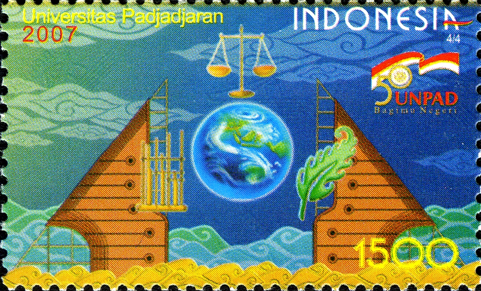 Stamps of Indonesia